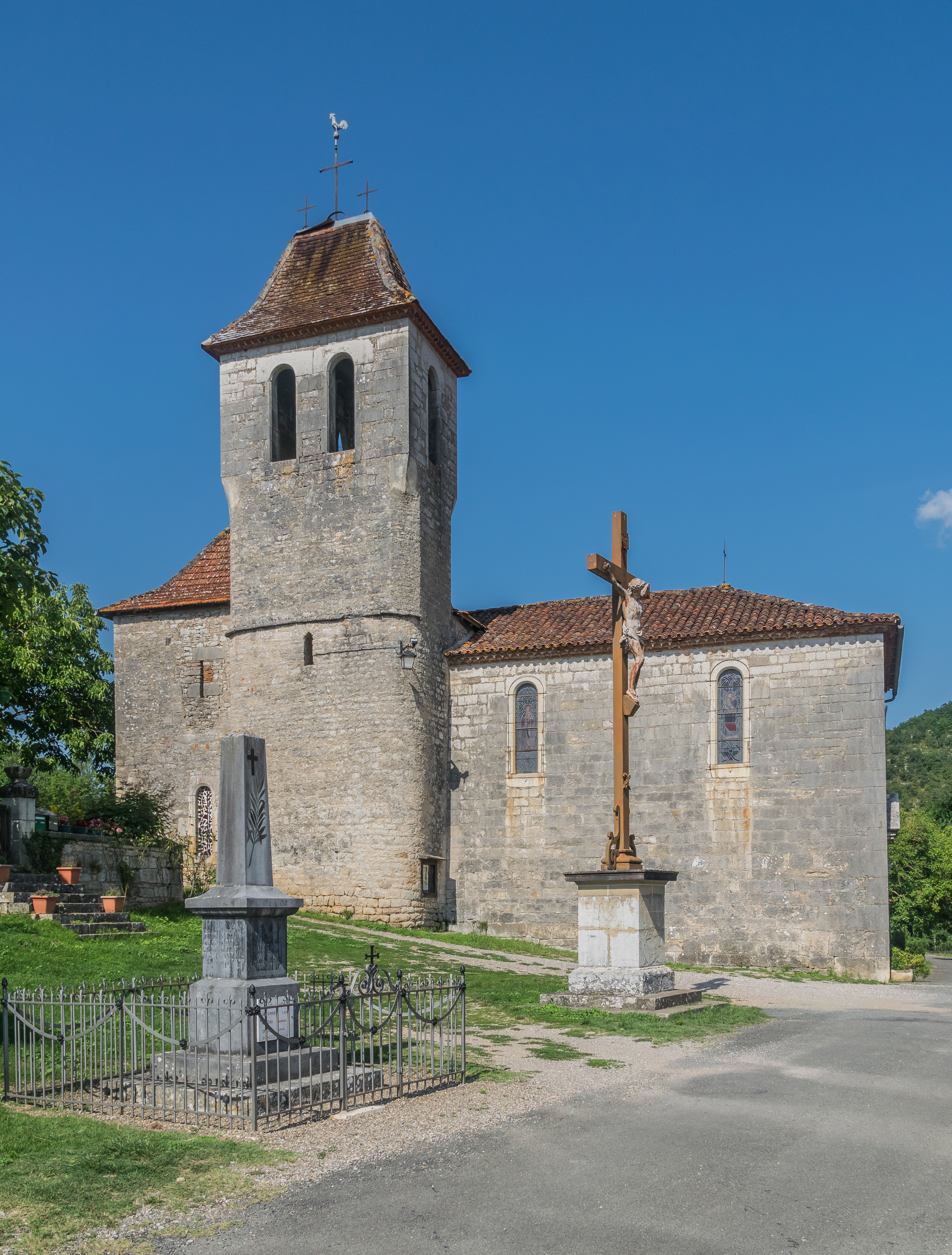 Saint Saturnin Church of Brengues, Lot, France